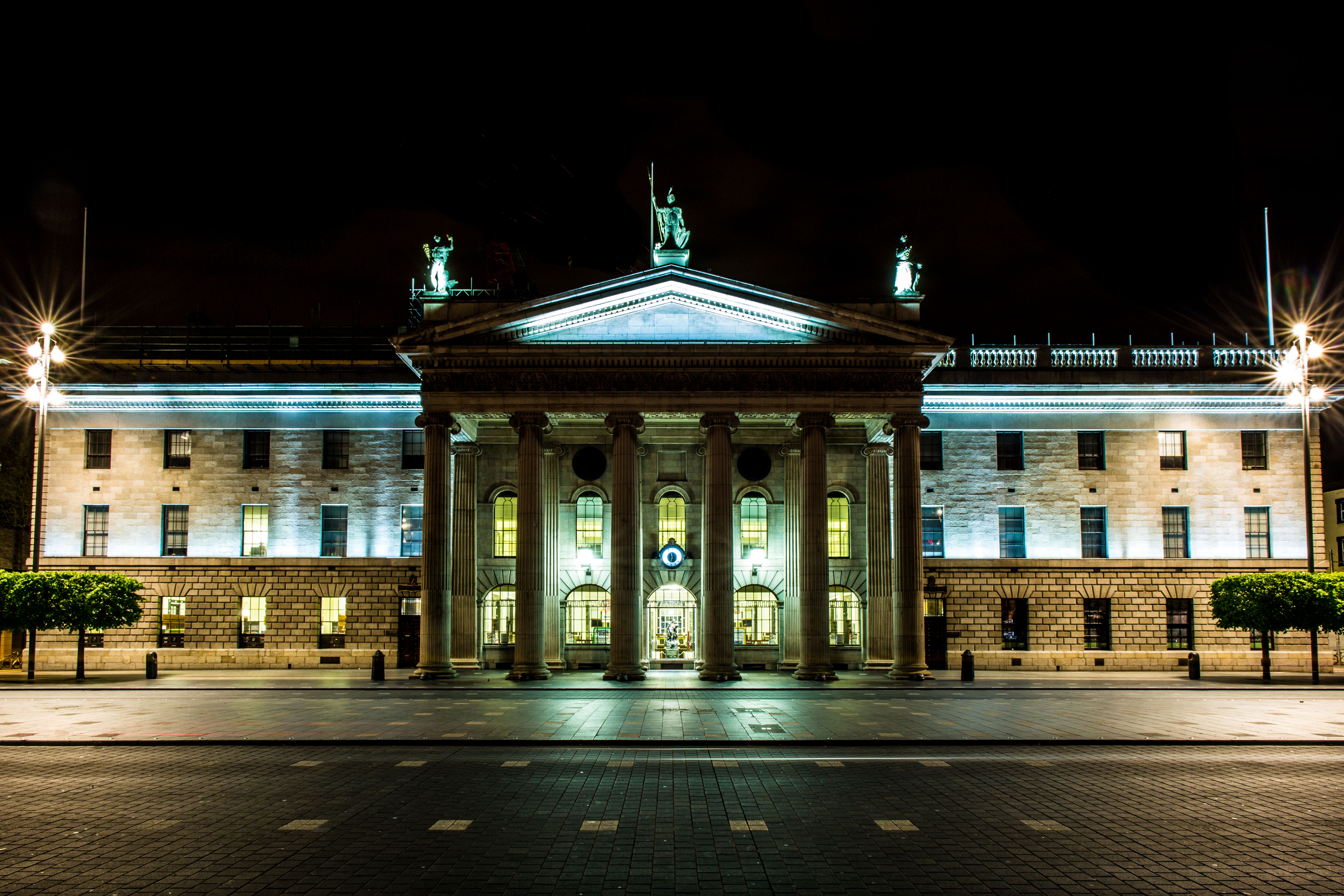 A night time shot of the General Post Office. This was shot on an 18mm lens and I am hoping to get back to try again when I can get further back.